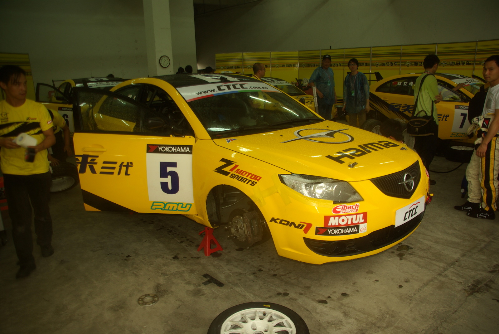 A Haima sedan as a racing car -- Chengdu CTCC 2011